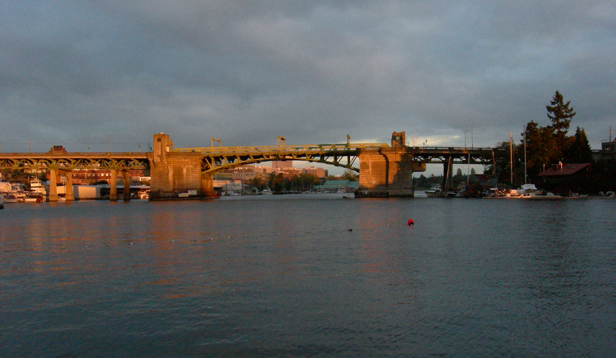 University Bridge, Seattle, Washington (view from the west)